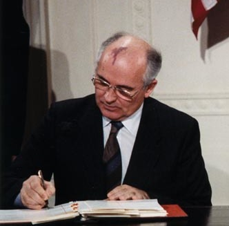 President Reagan and General Secretary Gorbachev signing the INF Treaty in the East Room of the White House.